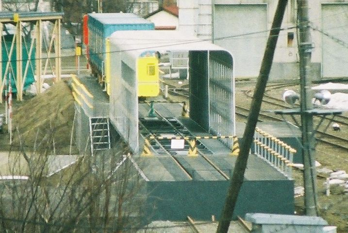 JR Hokkaido Mock Up of Train On Train, in Naebo Factory